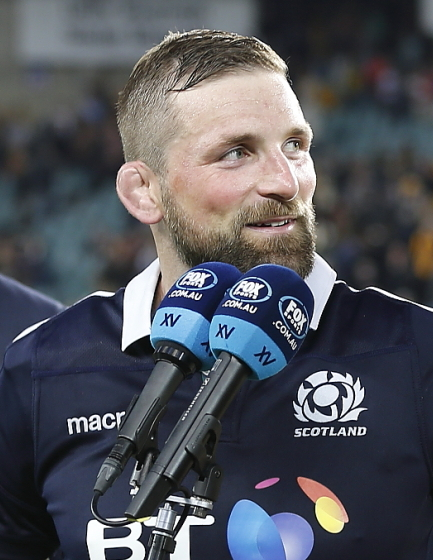 2017.06.17.17.06.24-Presentation to John Barclay-0002 The 2017 mid-year rugby union international, 17 June 2017, Australia vs Scotland at Allianz Stadium, Sydney